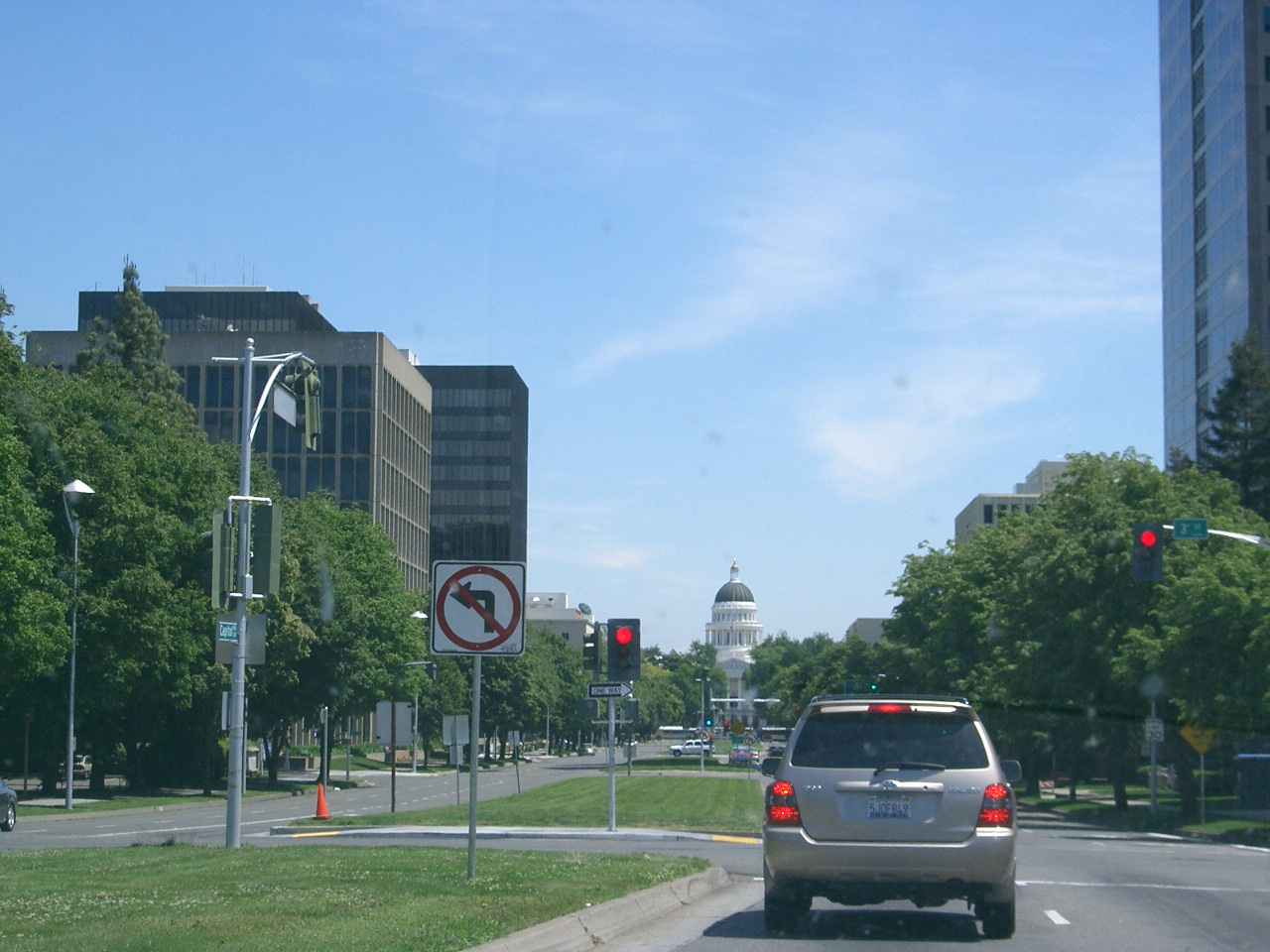 Driving toward the State Capitol in Sacramento.